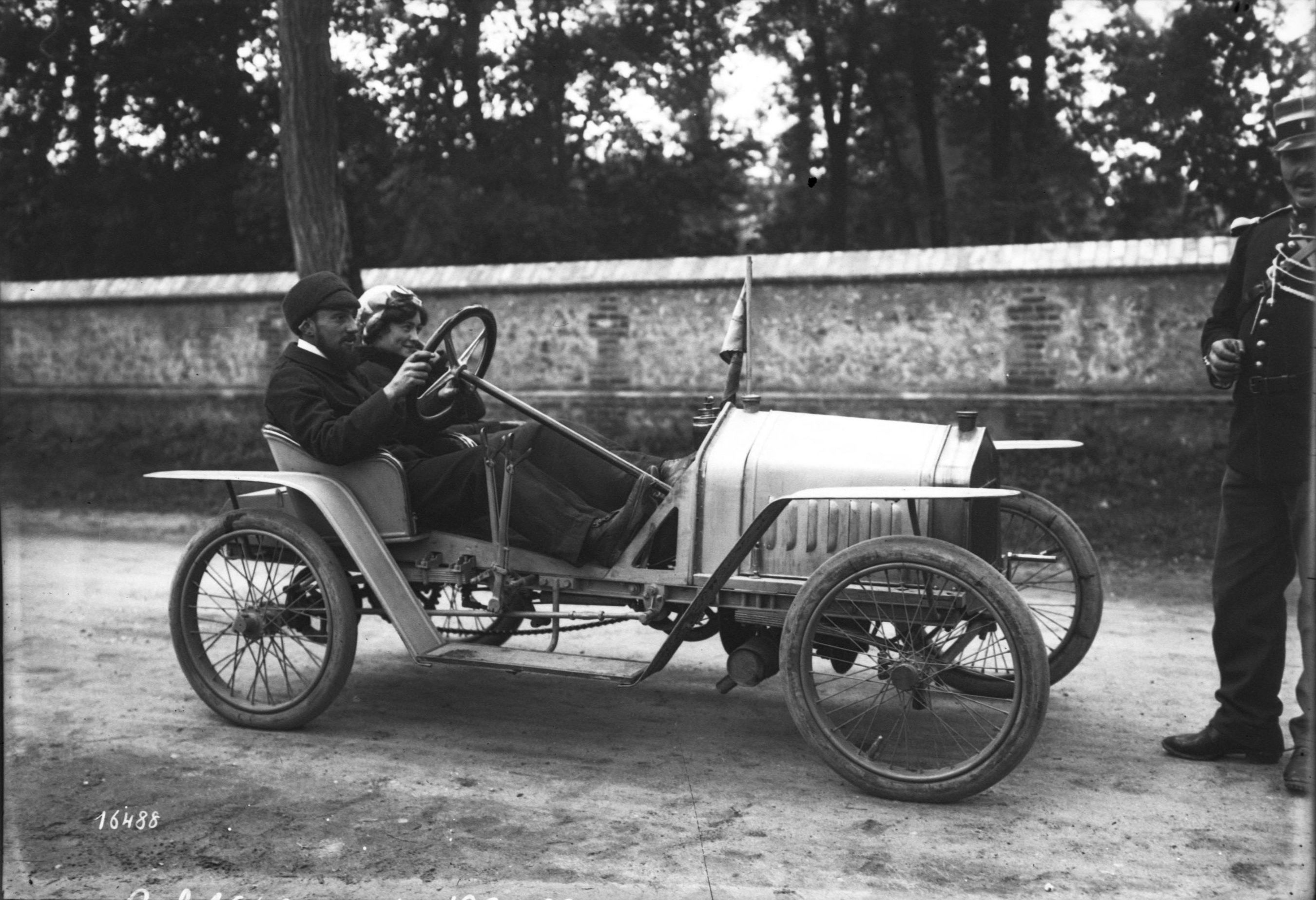 Marcel Violet and a passenger riding their Violette cyclecar to the Gaillon hillclimb in 1911